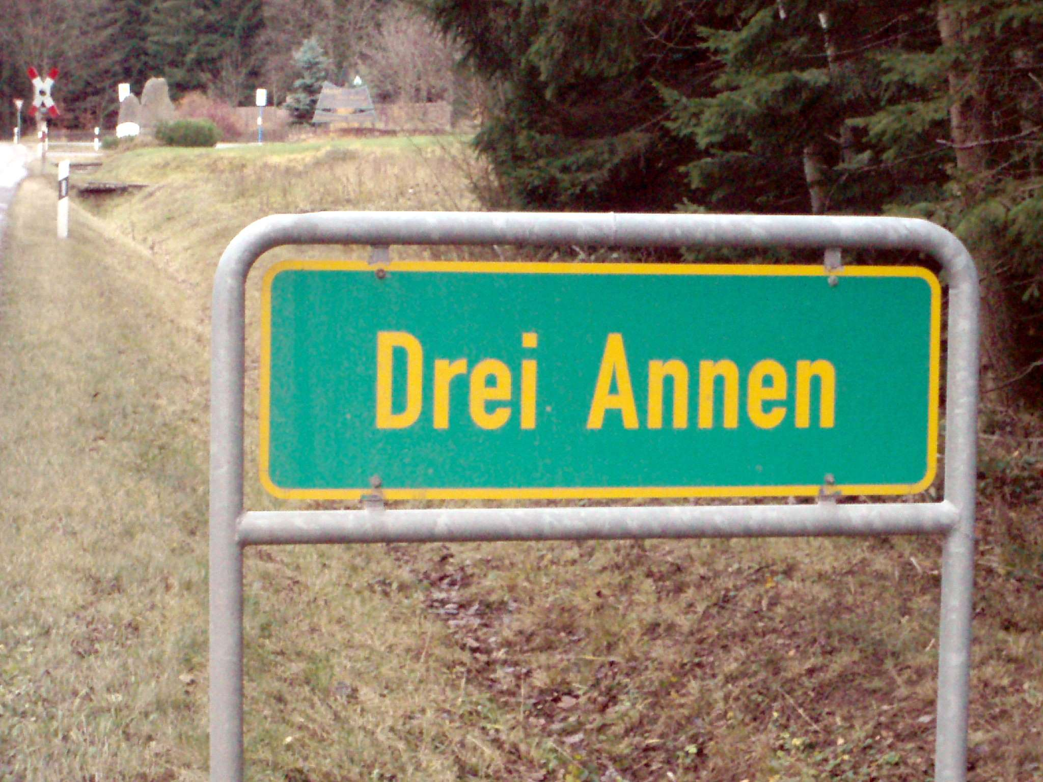 Village sign for Drei Annen Hohne, a village and railway station in the Harz mountains of Germany